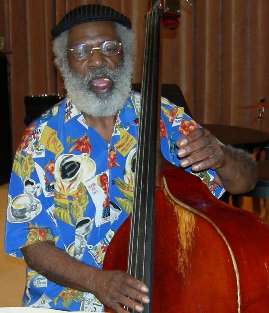 Cleve Eaton, rehearsing with the Ray Reach Quartet and Lew Soloff, for a performance at the 2008 Taste of 4th Avenue Jazz festival in Birmingham, Alabama.